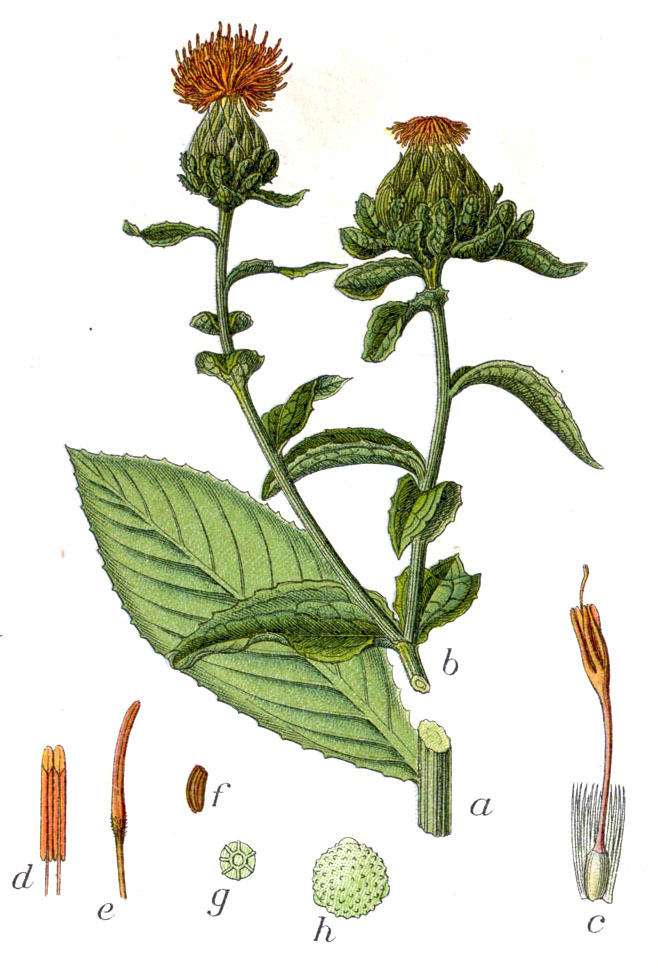 Carthamus tinctorius L. Original Caption Echter Saflor, Carthamus tinctorius